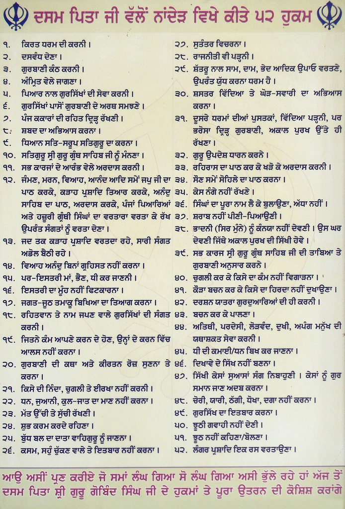 The title in Punjabi (Gurmukhi) reads "The 10th King's 52 Hukam From Nanded". It is believed that Ram Singh Koer, the great-grandson of Baba Buddha wrote down these injunctions.